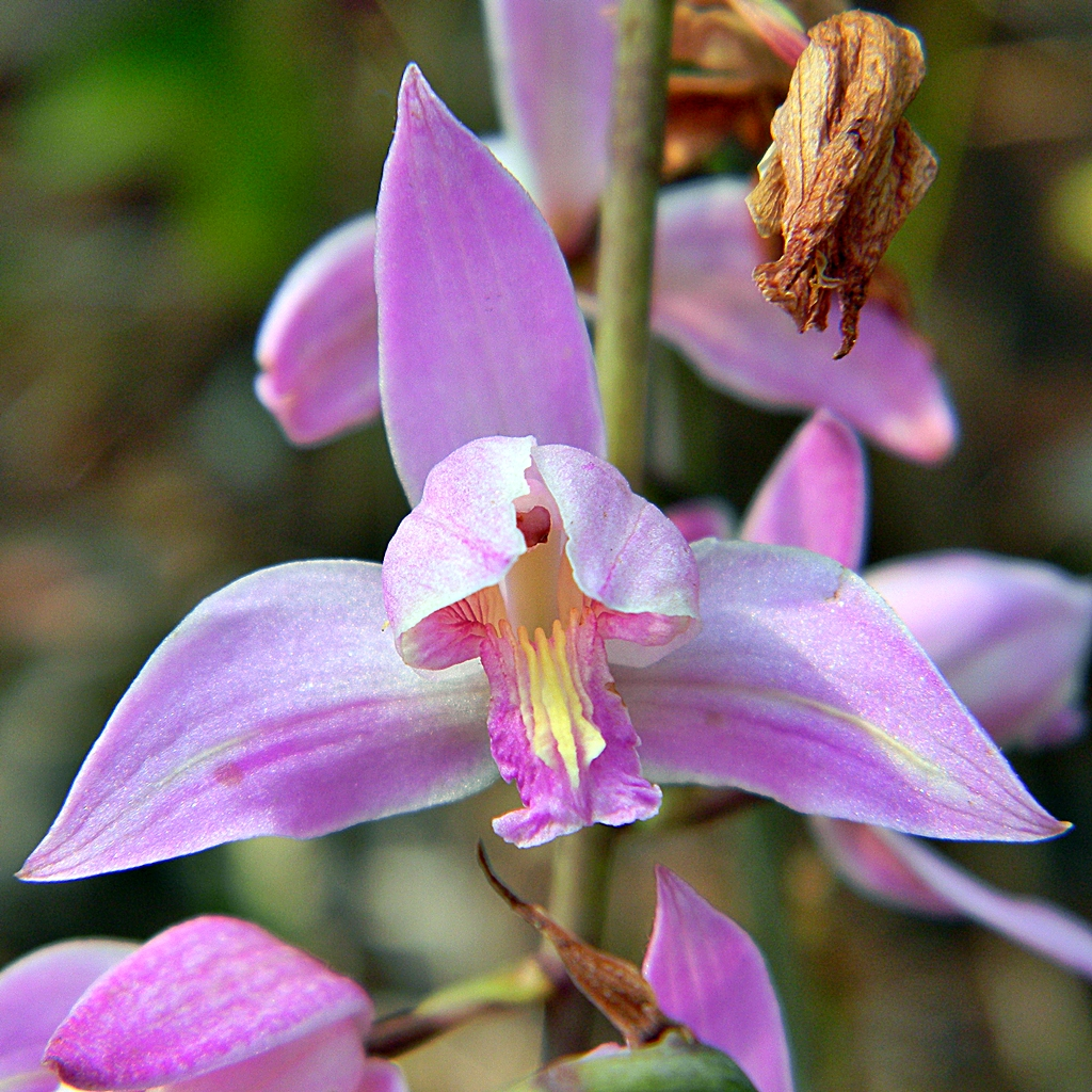 Bletia purpurea. I found several robust plants in bud a few weeks ago in the flatwoods and then promptly lost them (I don't see very well). Today I relocated them and there were still a few blooms to photograph. Most had gone to seed pods, which is great for the future :-) Palm Beach County, Florida